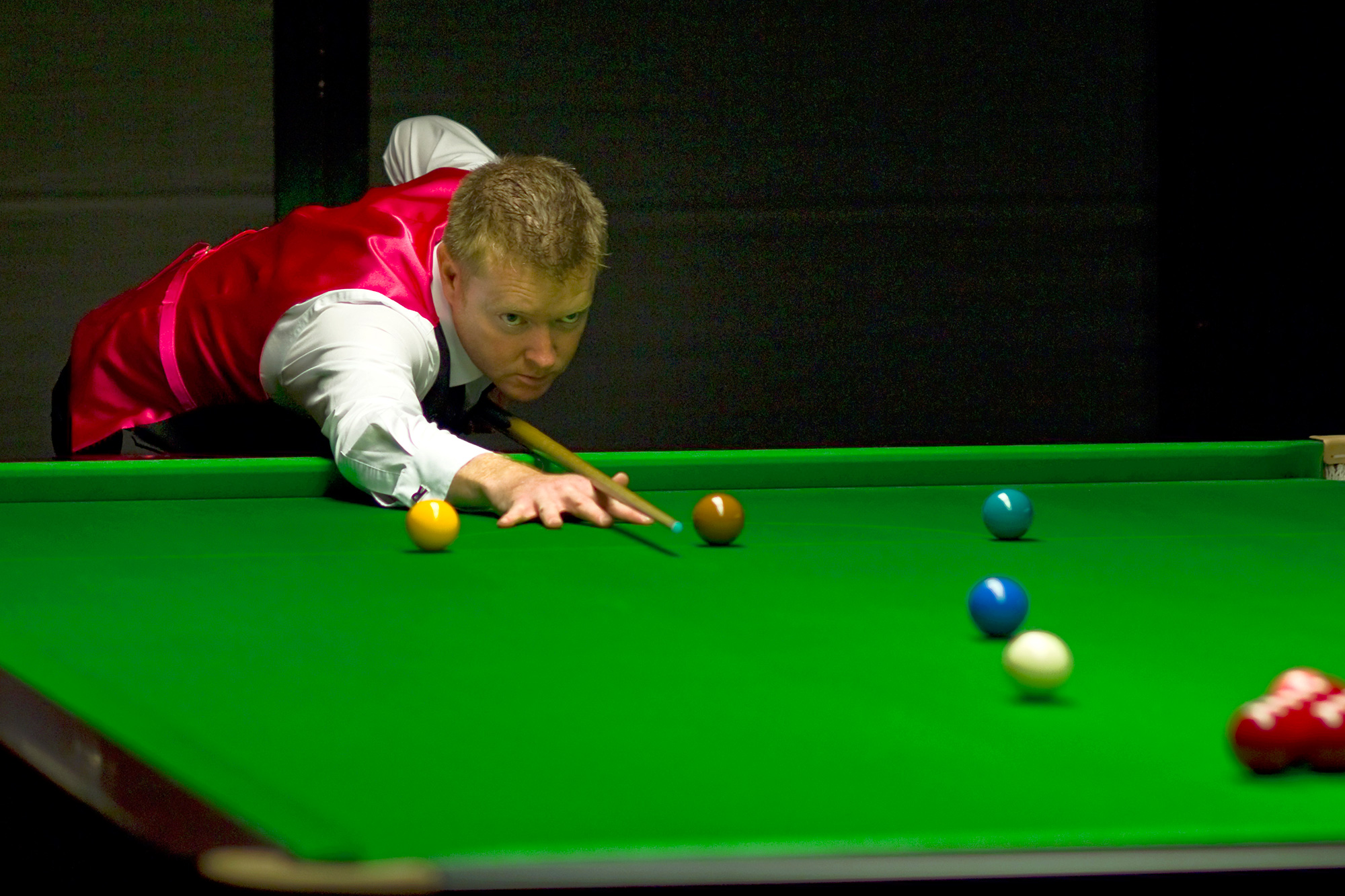 Gerard Greene at the Paul Hunter Classic 2011